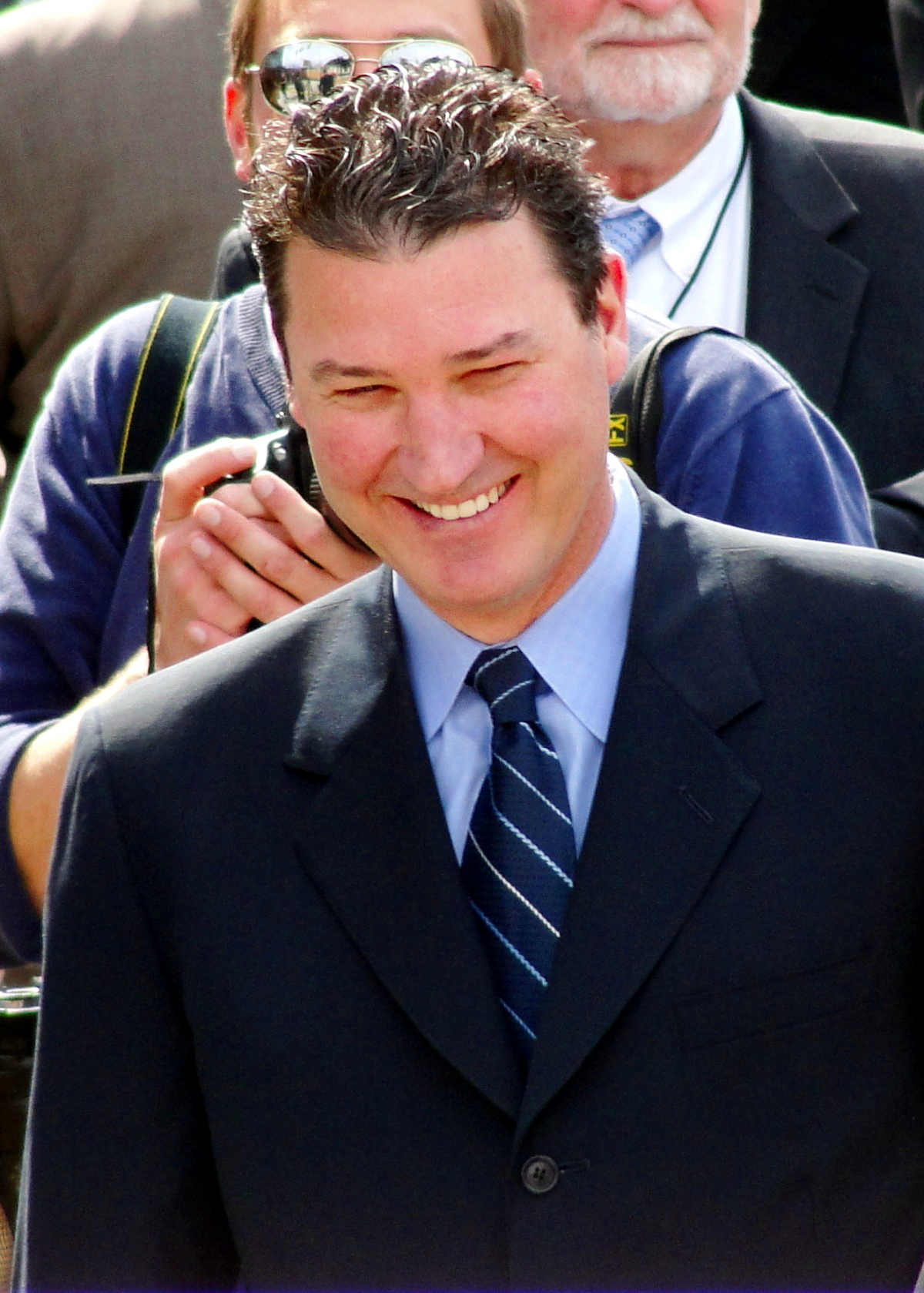 Mario Lemieux speaking with his wife, Nathalie, prior to the unveiling of "Le Magnifique", a statue designed by sculptor Bruce Wolfe to honor the career and achievements of the former Penguins star and current team owner. The statue was erected outside Consol Energy Center in Pittsburgh, PA, on March 7, 2012. cropped for infobox purpose, minor color adjustments